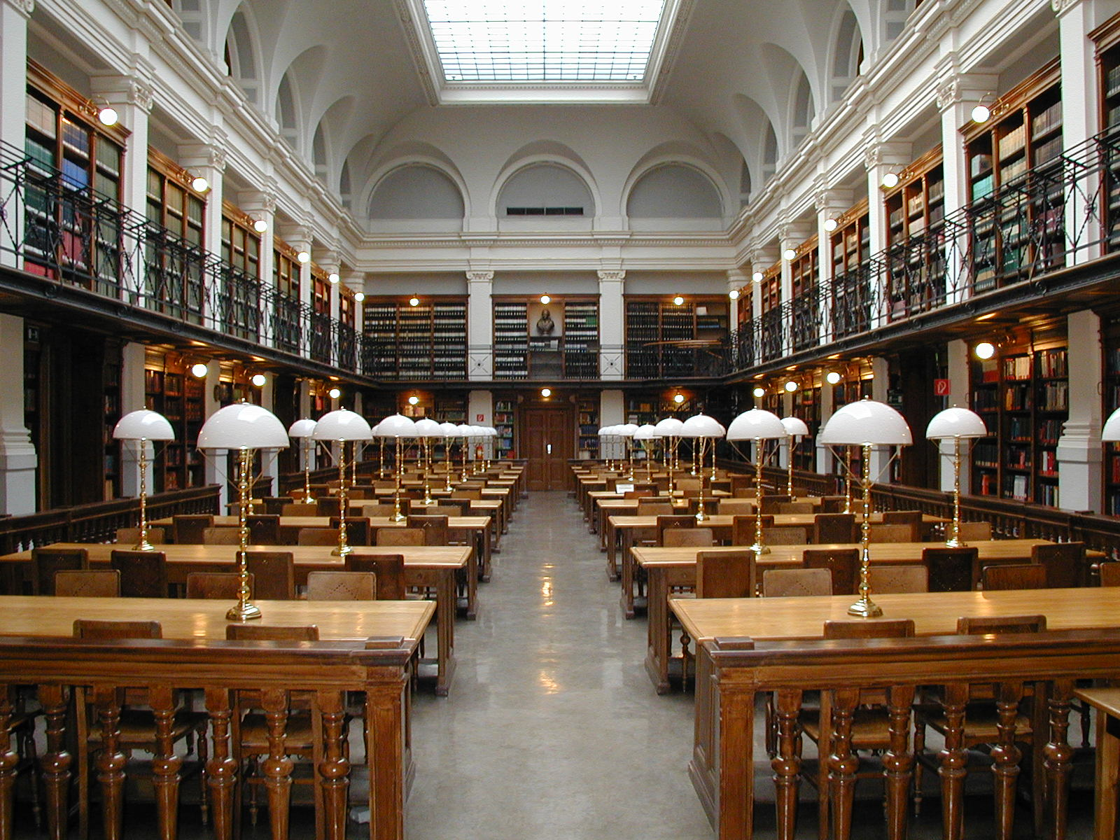 The main reading room of Graz University Library (19th century) on 2 Sep 2003. Picture taken and uploaded by Dr. Marcus Gossler.